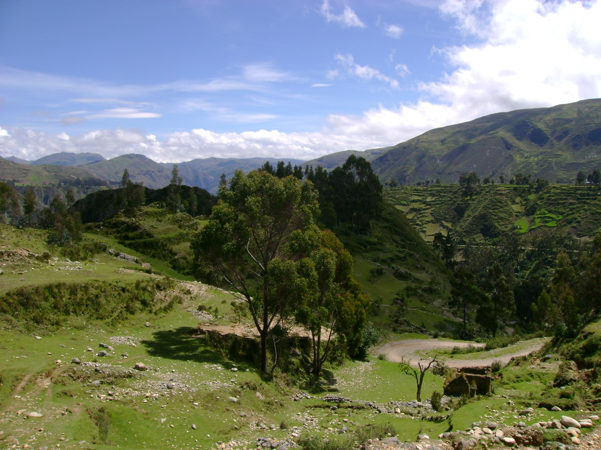 View of the gorge Marcarragra.